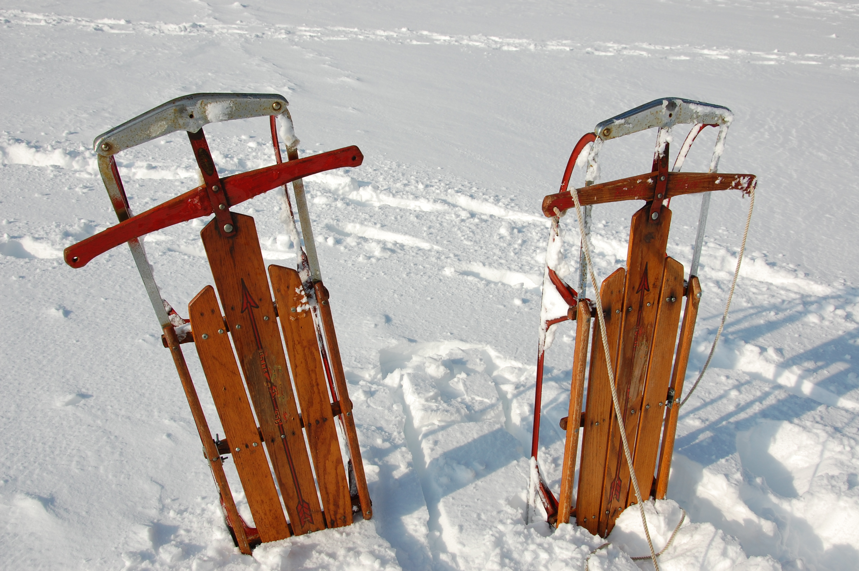 These 40+ year old sleds are completely original and still work great!